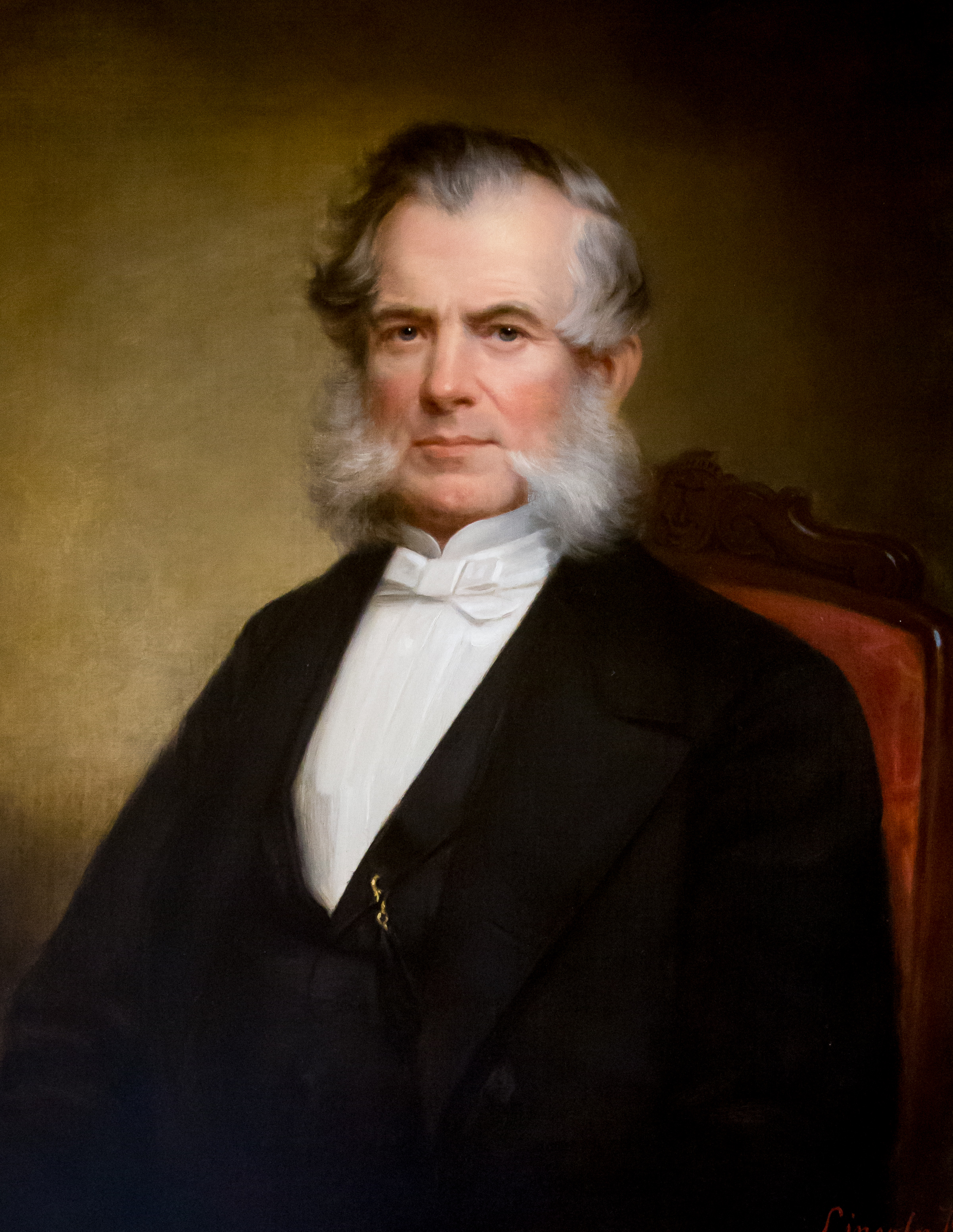 RI Governor Elisha Dyer 1857-1859. Official portrait by James Sullivan Lincoln in the Rhode Island State House.